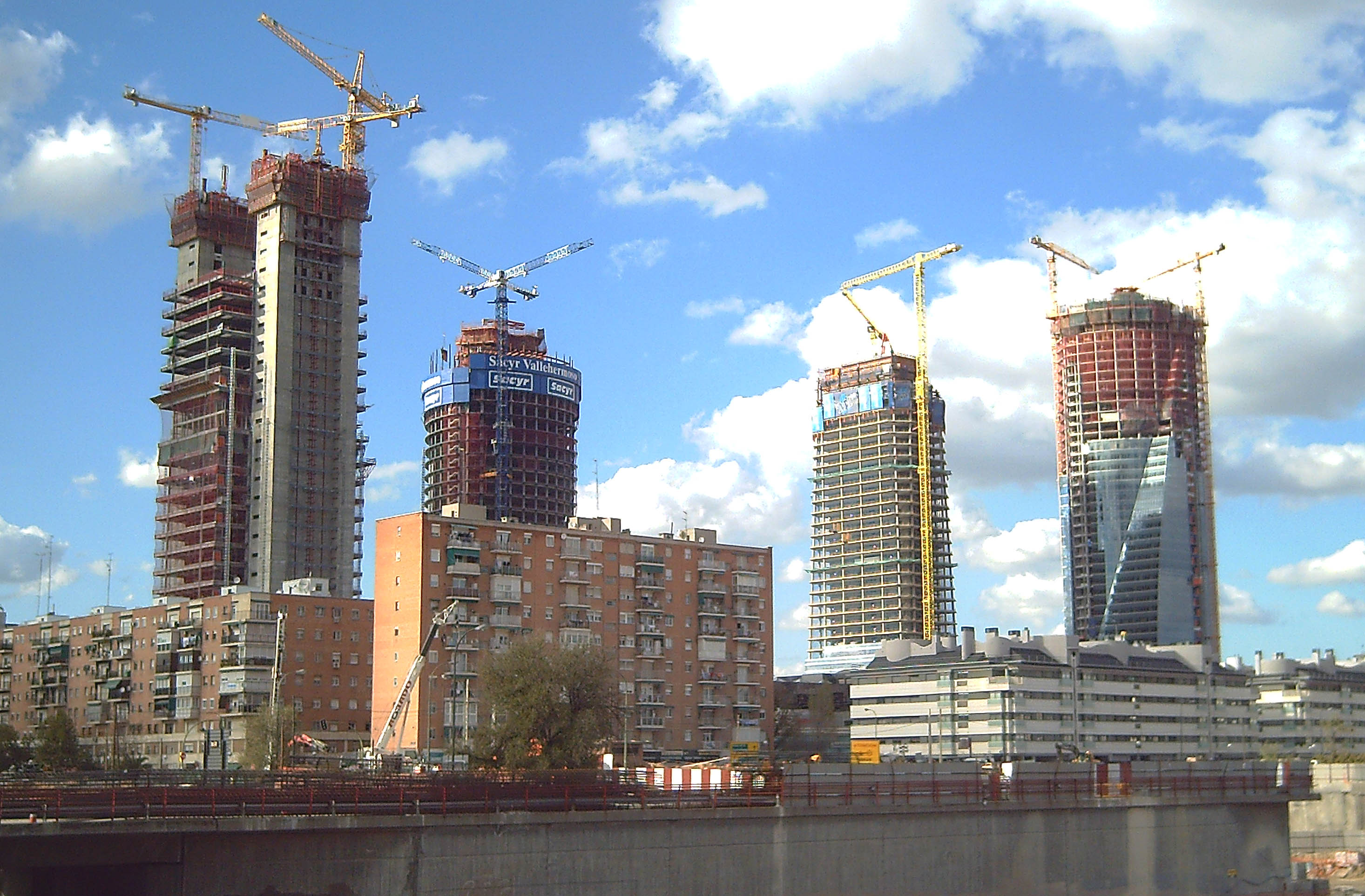 View of the Cuatro Torres Business Area (CTBA) under construction from Chamartín railway station in Madrid (Spain).